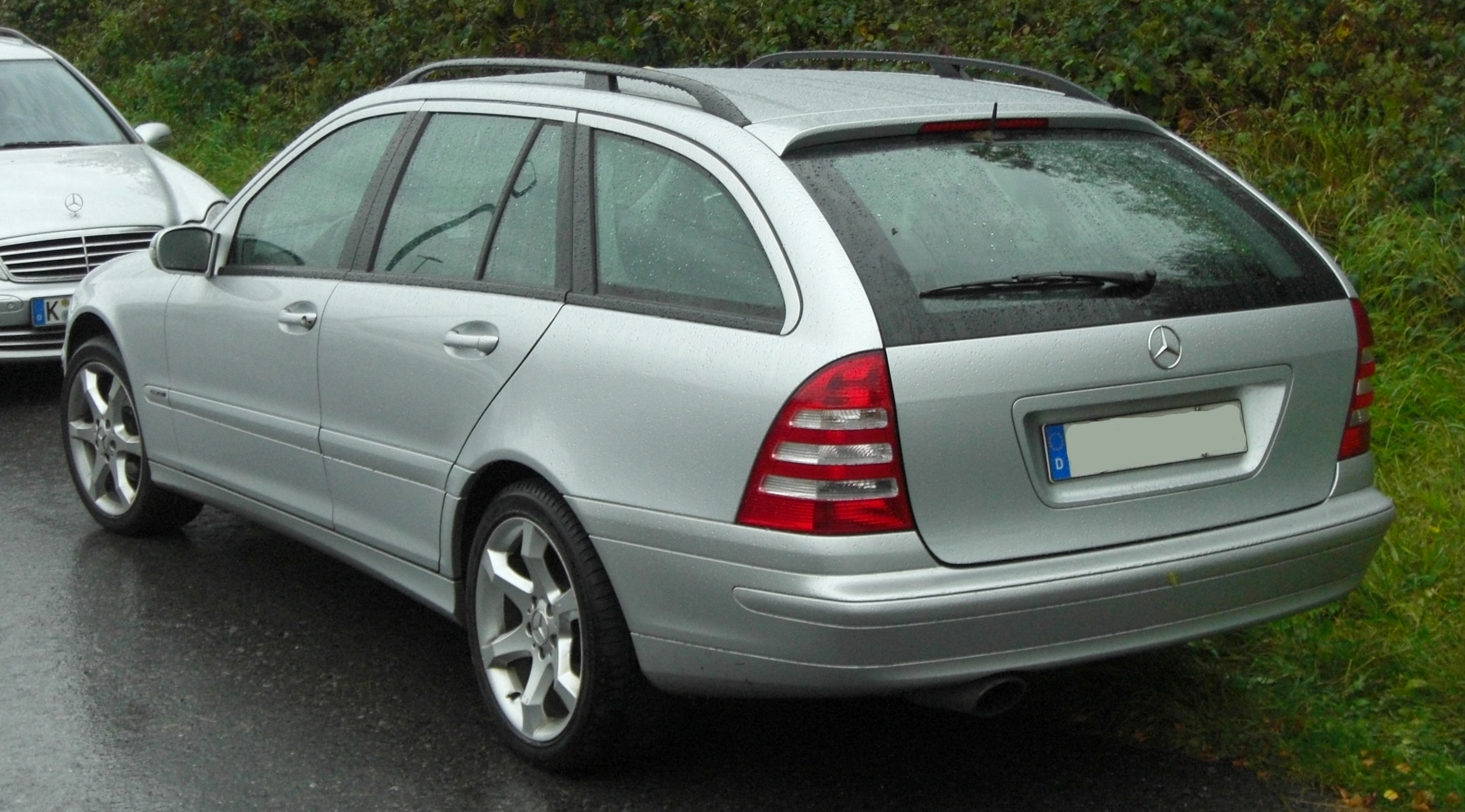 Description: Mercedes C-Klasse T-Modell Facelift Sport Edition Source: Matthias Other Version(s)